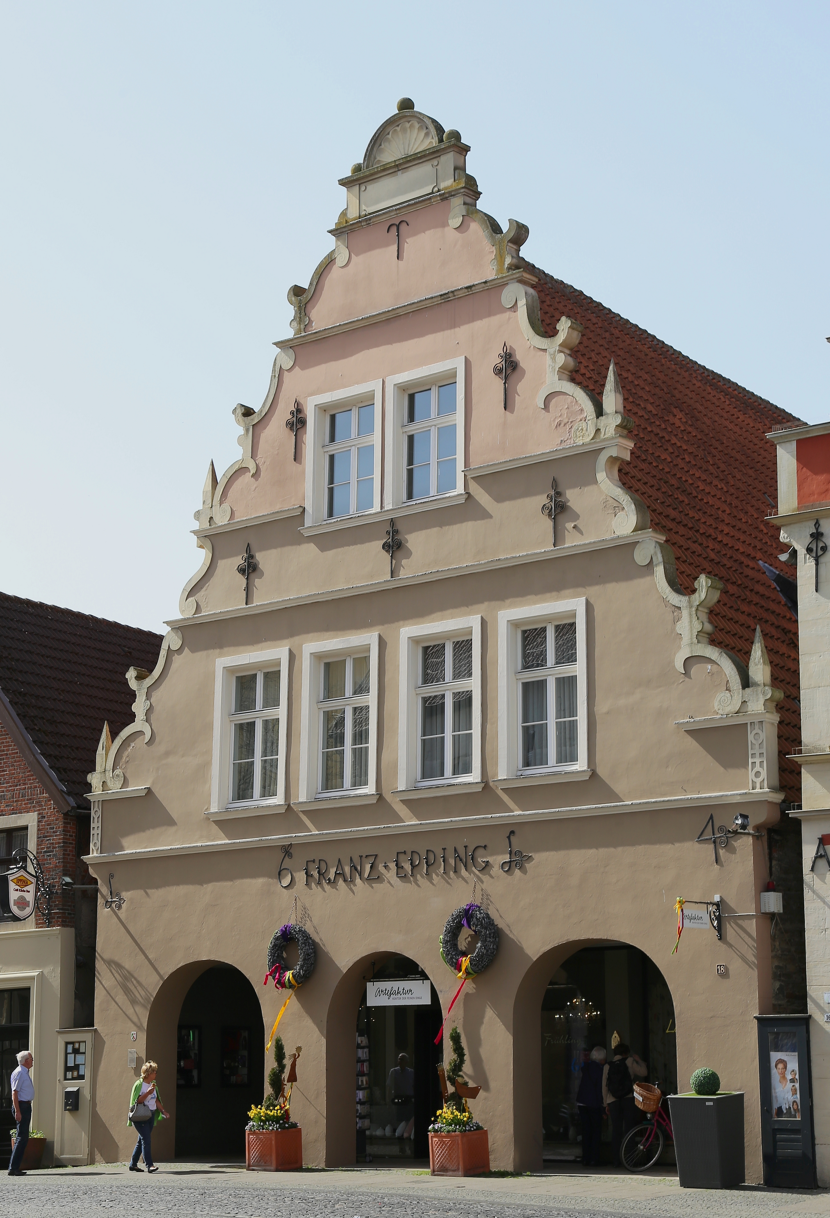 Goddaeus House (Beamtenhaus Goddaeus), 18 Market (Markt 18) in Steinfurt-Burgsteinfurt, Kreis Steinfurt, North Rhine-Westphalia, Germany.